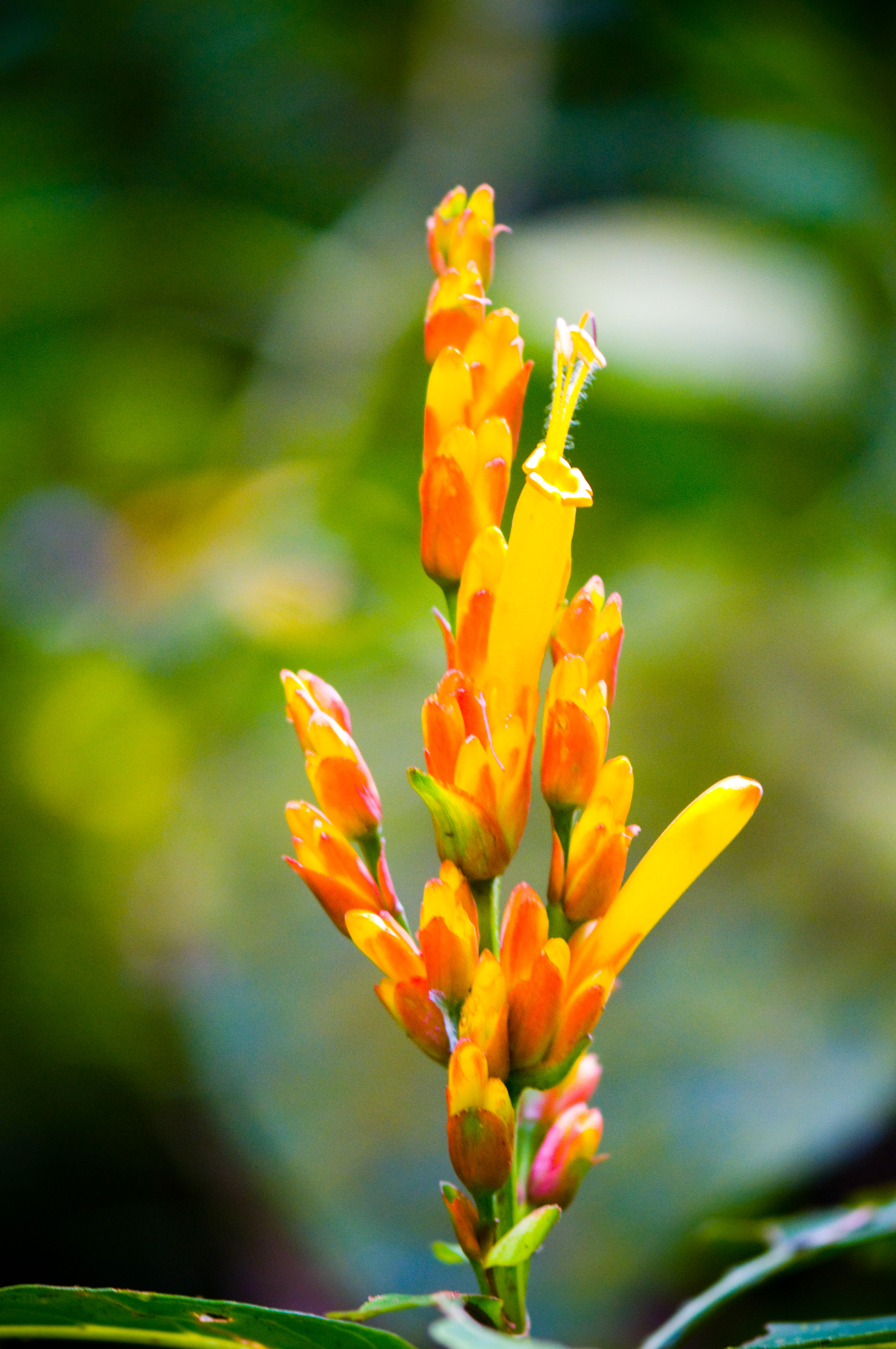 Sanchezia speciosa flower at El Yunque National Forest